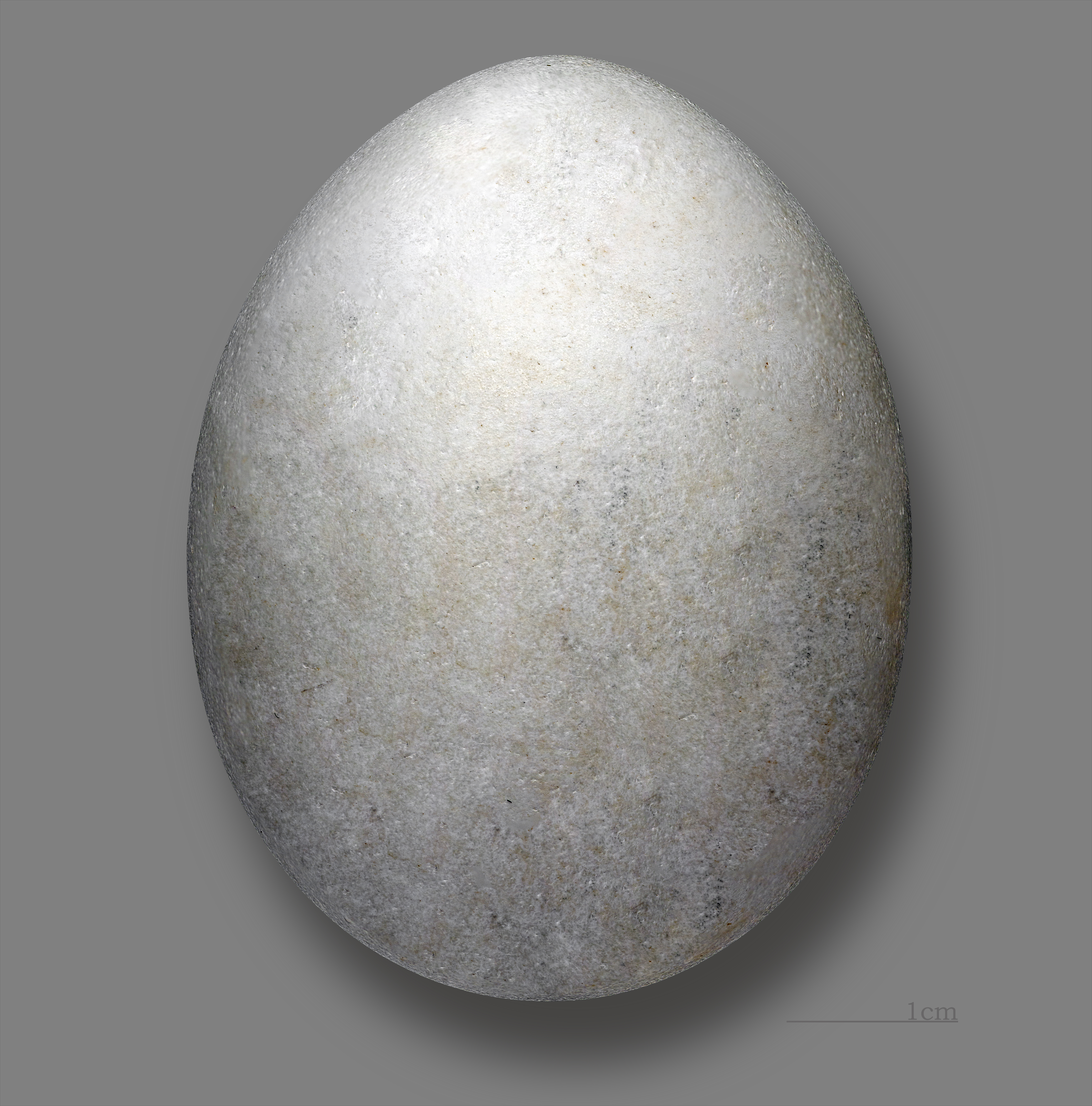 Egg of Yelkouan shearwater. Collection of Jacques Perrin de Brichambaut.